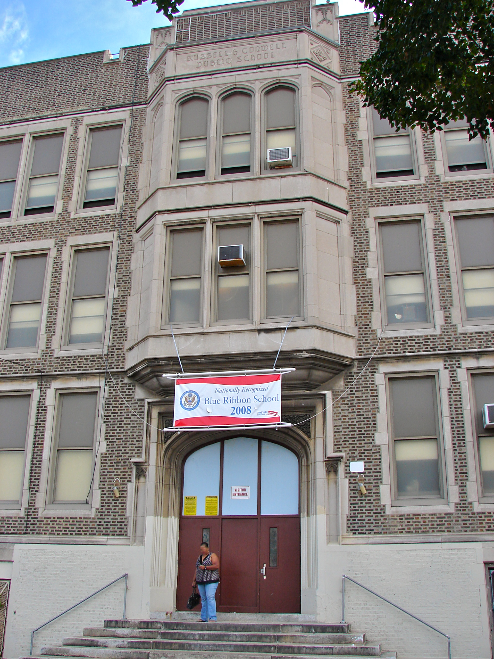 Russell H. Conwell School in Philadelphia on the NRHP since November 18, 1988. At 1849 East Clearfield Street in the Port Richmond neighborhood of NE Philly.